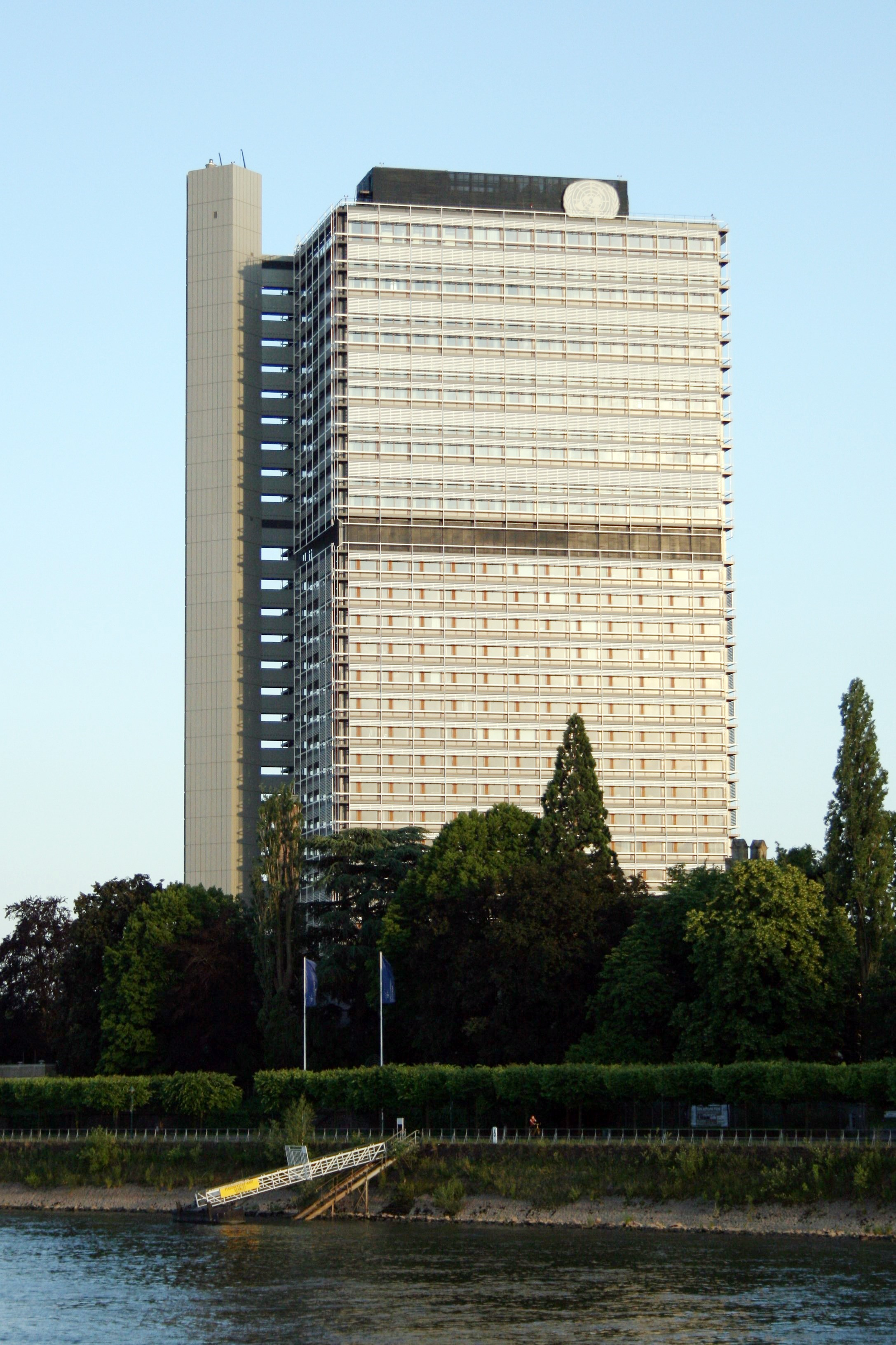 The former house with bureaus used by the members of german parliament (german "Bundestagshochhaus") in Bonn, called "Langer Eugen" —named after Eugen Gerstenmaier; a former president of german parliament (Bundestag) from 1954 until 1969— at Rhein waterside. Now used by employees of some international organisations under the head of the United Nations with there logo on the top of the building.